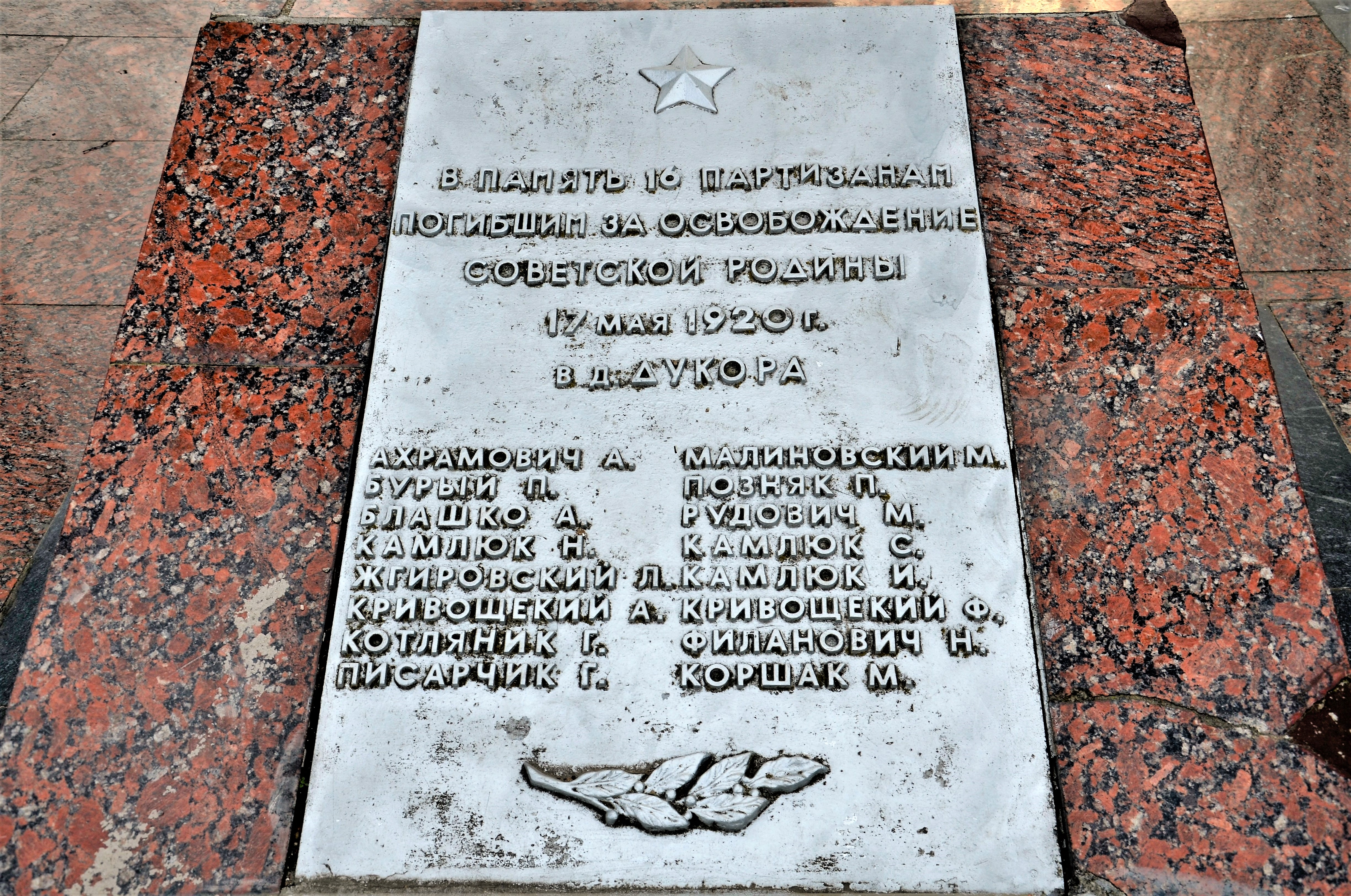 Memorial to fallen soldiers in Dukora in 1920